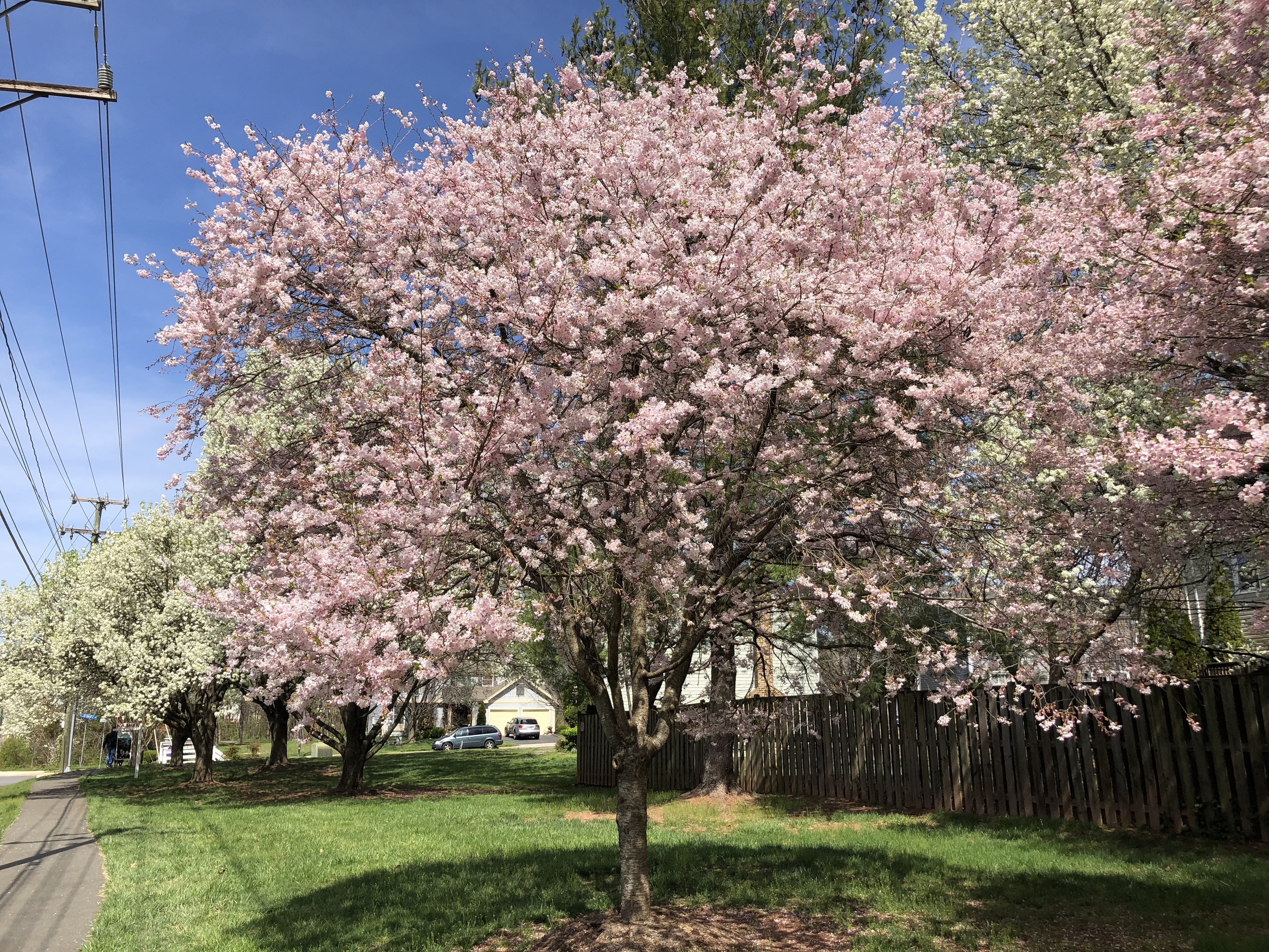 Autumn Cherry blooming along Lees Corner Road in the Franklin Farm section of Oak Hill, Fairfax County, Virginia